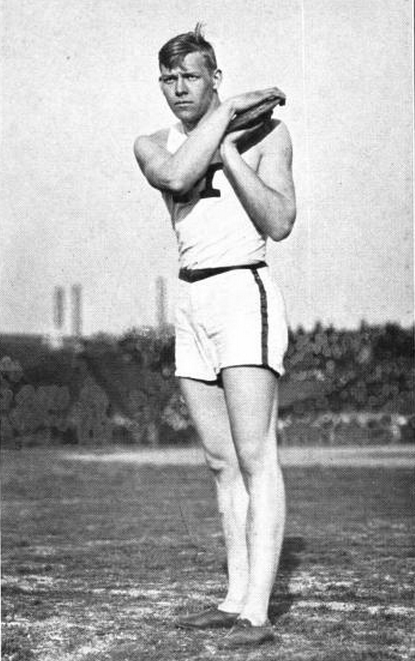 Photograph of John Garrels